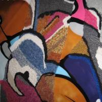 Crochet Graffiti, detail of the piece "Ullig Ångest Ruskig Virkning" 2007 [Kerstin, Karin, Ångest, Ruskig]